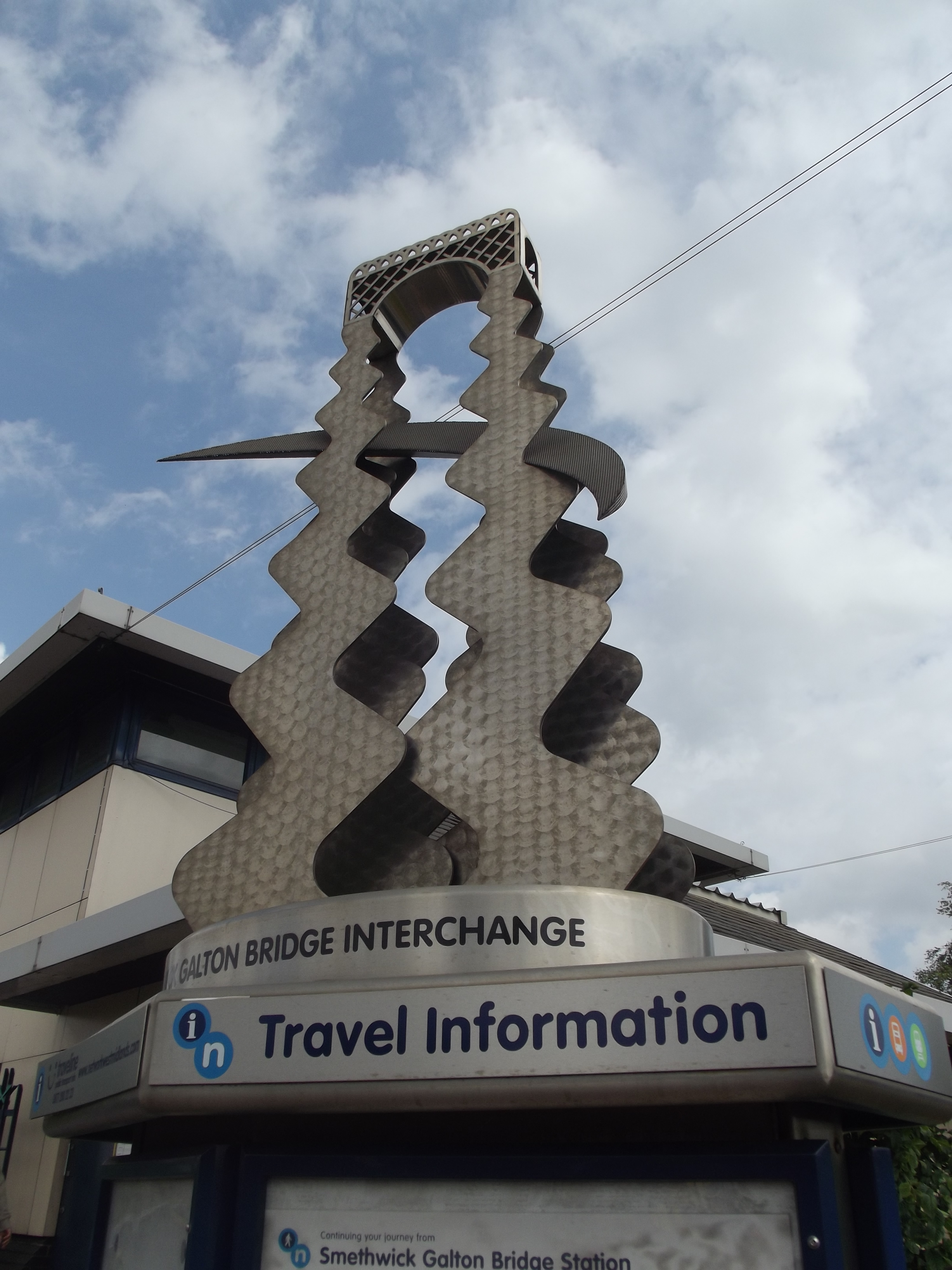 Another nice day in June free of rain, so I decided to try my new Fujifilm FinePix S2980 out at Smethwick Galton Bridge (including the railway, bridges and canals). This is Smethwick Galton Bridge Station - High Level (on the Snow Hill lines). Smethwick Galton Bridge Interchange outside the station.